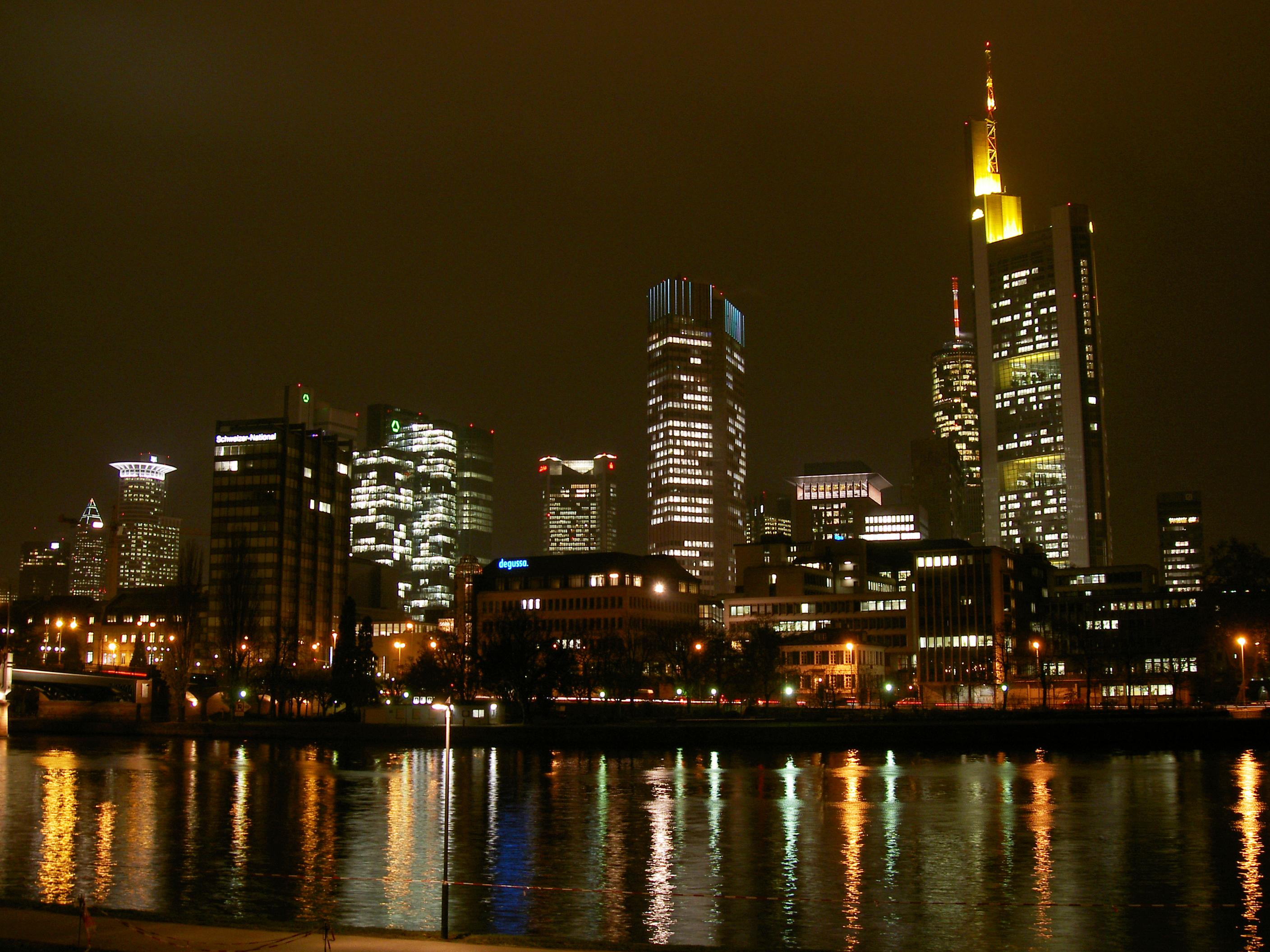 Frankfurt skyline